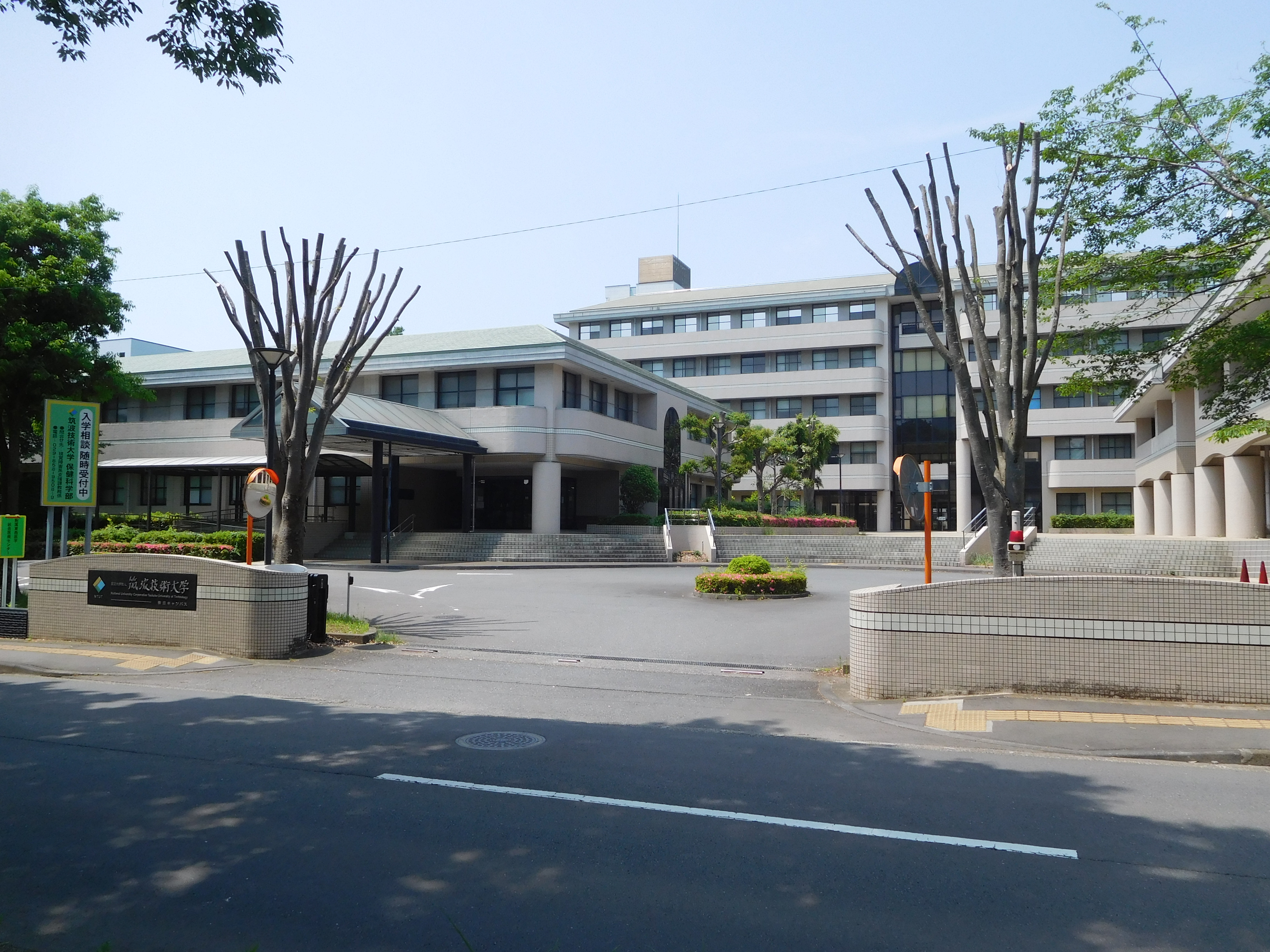 This is an university campus in Tsukuba.